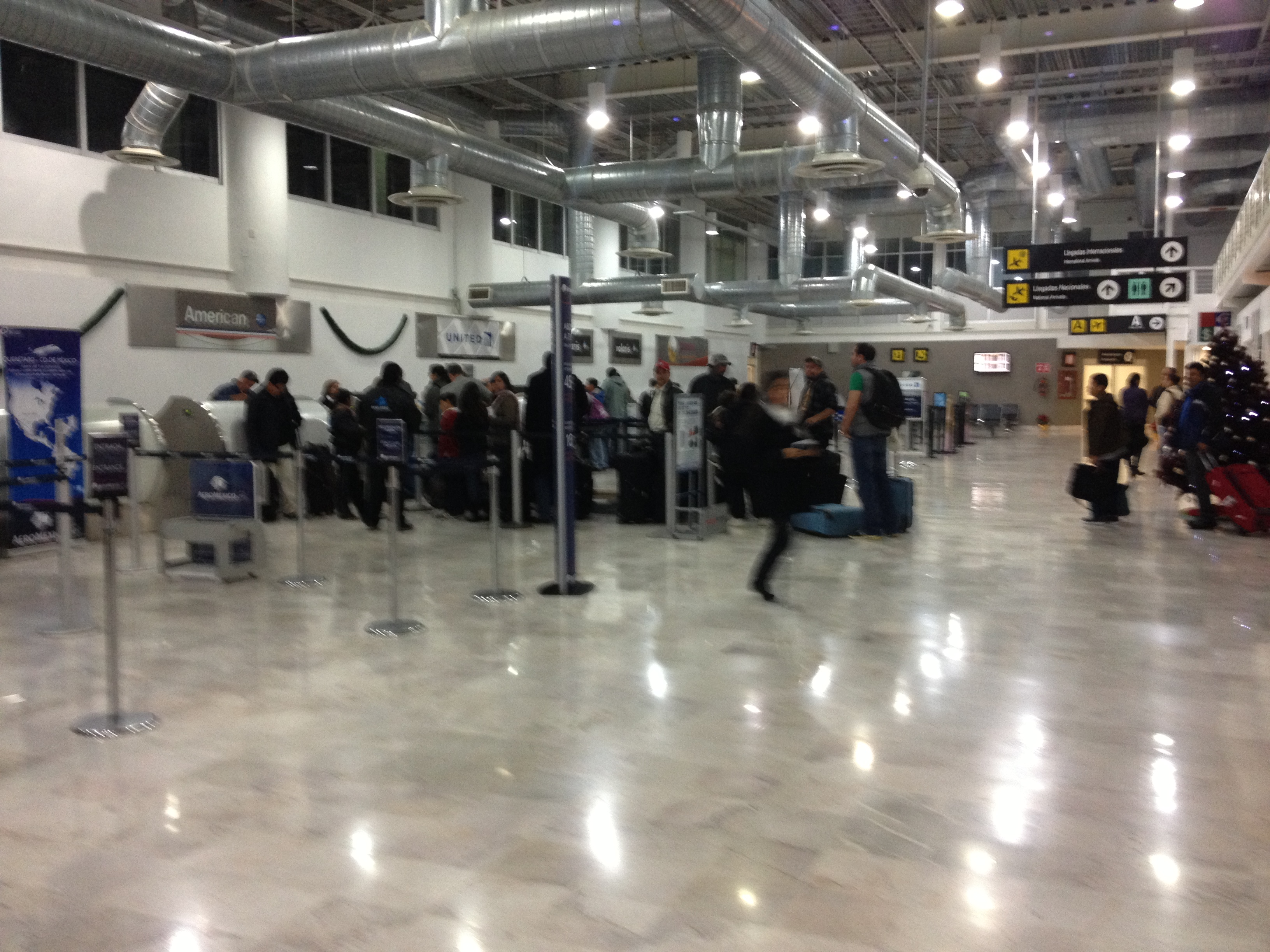 The main terminal at Queretaro International Airport.